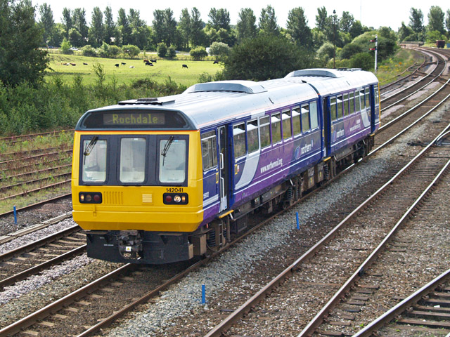 Northern Rail (leased from Angel Trains) former British Railways Associated Rail Technologies (body built by Leyland Bus Limited, under frame built by British Rail Engineering Limited) class 142 ‘Pacer’ two car diesel-hydraulic multiple unit number 142041 (55632 and 55582) of Newton Heath TMD passes Castleton East Junction on the Down Main line forming the 10:15 (Daily) Southport to Rochdale (2J62). Saturday 28th July 2007